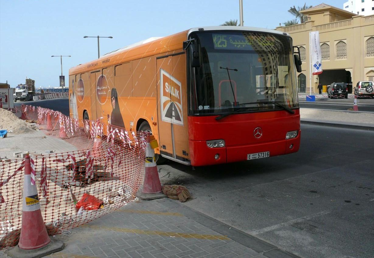 This is a photo of a Dubai Bus (Route X25), sitting in Dubai Marina in Dubai, United Arab Emirates, on 26 December 2007. The bus is a Mercedes-Benz Conecto. The bus is wrapped with an advertisement for Salik.